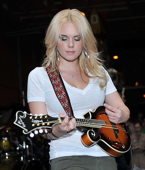 ARABIAN GULF (Nov. 5, 2010) Cheyenne Kimball, a performer with the country music band, Gloriana, performs in the hangar bay of the aircraft carrier USS Abraham Lincoln (CVN 72). The concert was sponsored by the Abraham Lincoln morale, welfare and recreation program. The Abraham Lincoln Carrier Strike Group is deployed to the U.S. 5th Fleet area of responsibility supporting maritime security operations and theater security cooperation efforts. (U.S. Navy photo by Mass Communication Specialist Seaman Wade T. Oberlin/Released)